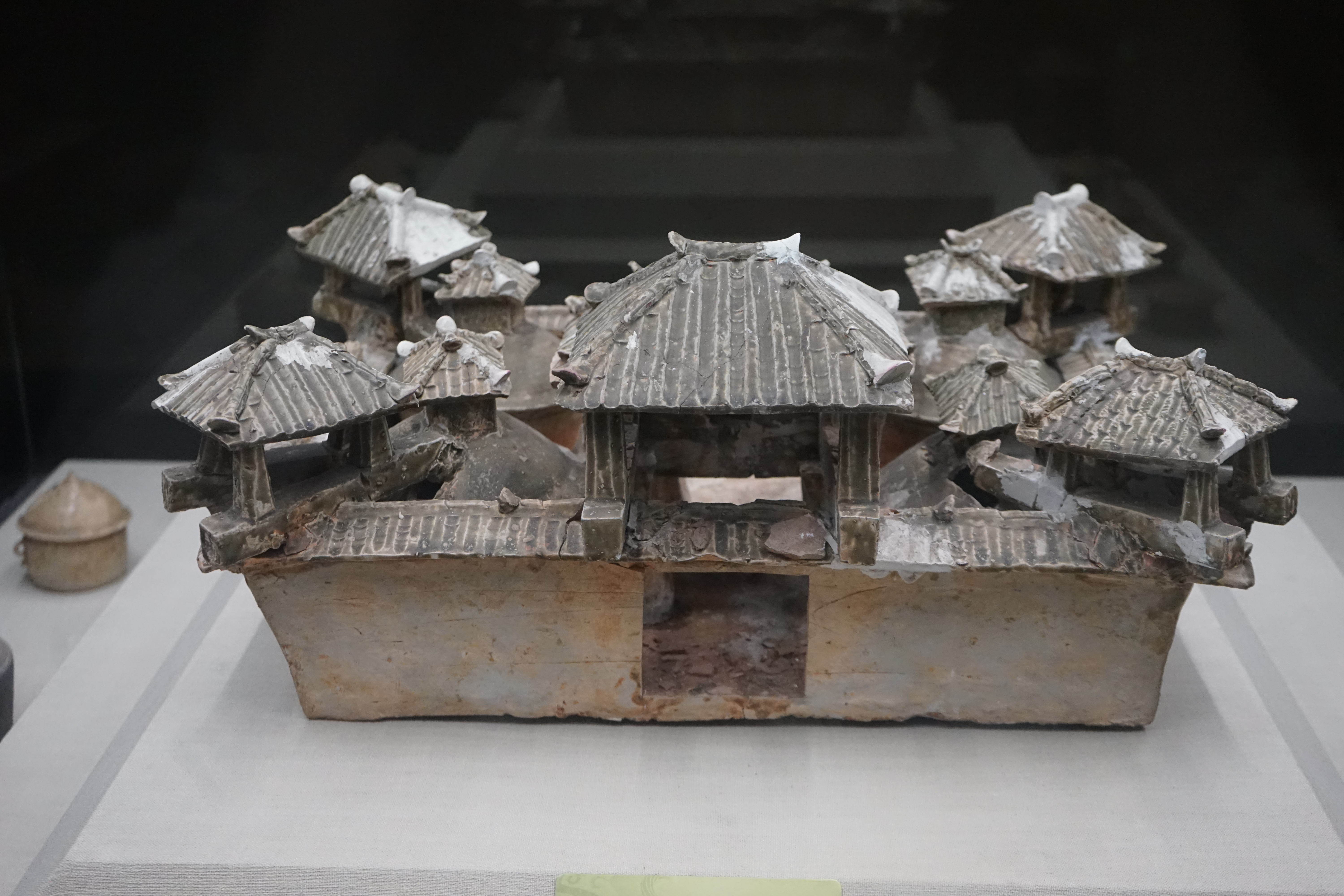 Celadon Storehouse and Courtyard (青瓷仓廪院落). Wu Kingdom, Three Kingdoms period. Excavated at Ezhou Iron and Steel Co. Beverage Factory (鄂钢饮料厂) in 1991. First Grade Cultural Relic.